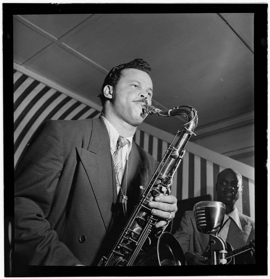 Gottlieb, William P., 1917-, photographer. [Portrait of Tiny Grimes, New York, N.Y., between 1946 and 1948] 1 negative : b&w ; 2 1/4 x 2 1/4 in. Notes: Gottlieb Collection Assignment No. 537 Purchase William P. Gottlieb Forms part of: William P. Gottlieb Collection (Library of Congress). Subjects: Grimes, Tiny, 1917- Jazz musicians--1940-1950. Saxophonists--1940-1950. Guitarists--1940-1950. Format: Portrait photographs--1940-1950. Group portraits--1940-1950. Film negatives--1940-1950. Rights Info: Mr. Gottlieb has dedicated these works to the public domain, but rights of privacy and publicity may apply. Repository: (negative) Library of Congress, Prints & Photographs Division, Washington D.C. 20540 USA, Part Of: William P. Gottlieb Collection (DLC) 99-401005 General information about the Gottlieb Collection is available at Persistent URL: Call Number: LC-GLB23- 1221 This work is from the William P. Gottlieb collection at the Library of Congress. Rights and restrictions.In accordance with the wishes of William Gottlieb, the photographs in this collection entered into the public domain on February 16, 2010.